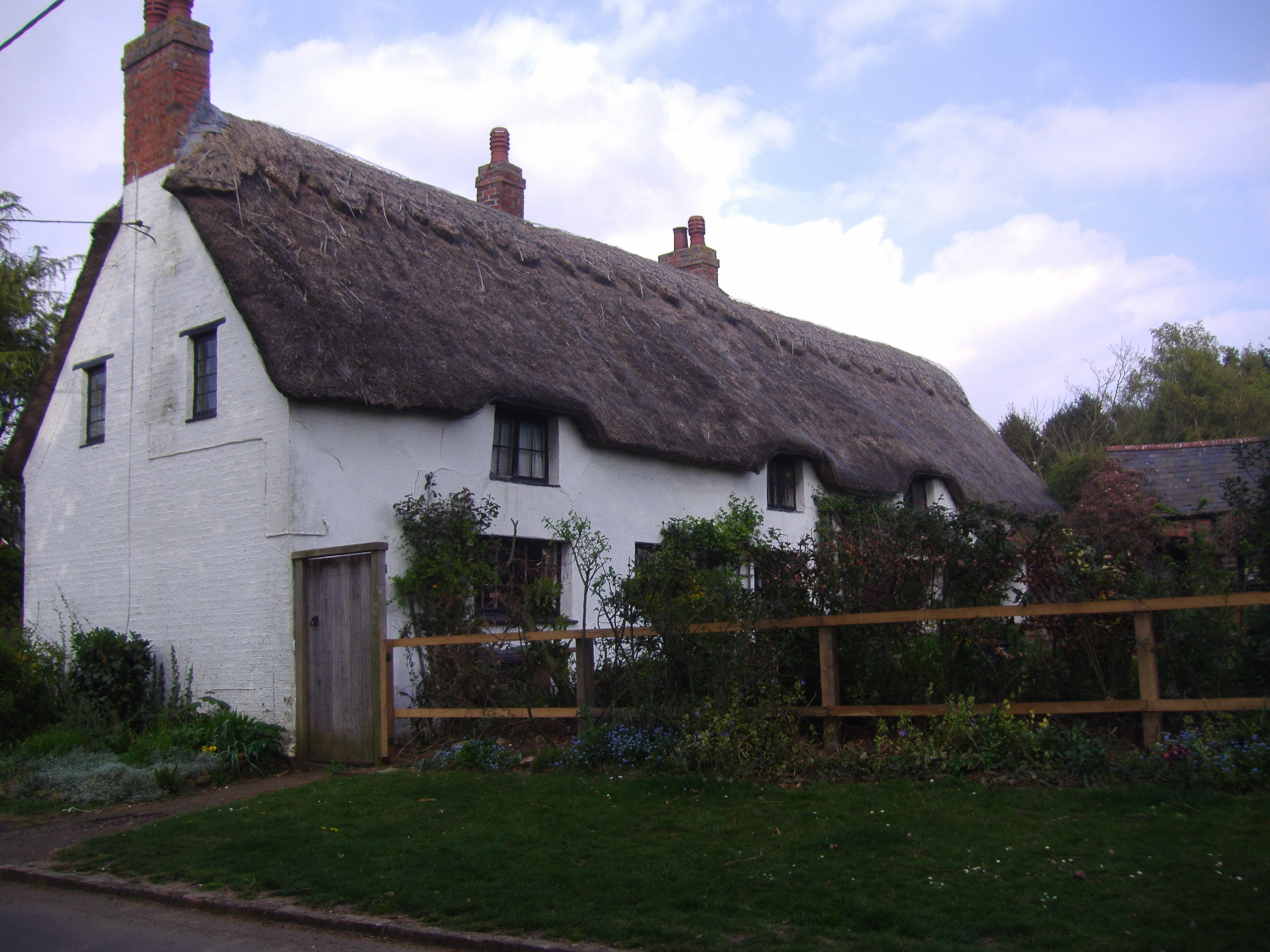 A cob and thatch cottage at Naseby, Northamptonshire